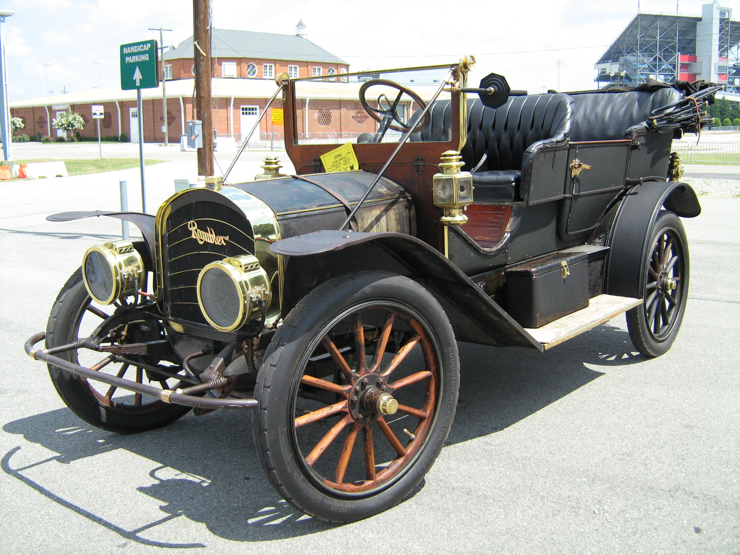 1909 Rambler model 44 touring car made by Thomas Jeffery & Company. This was the first automobile that came with a spare wheel and tire. Picture taken at the 2010 Richmond Region AACA show (Virginia).